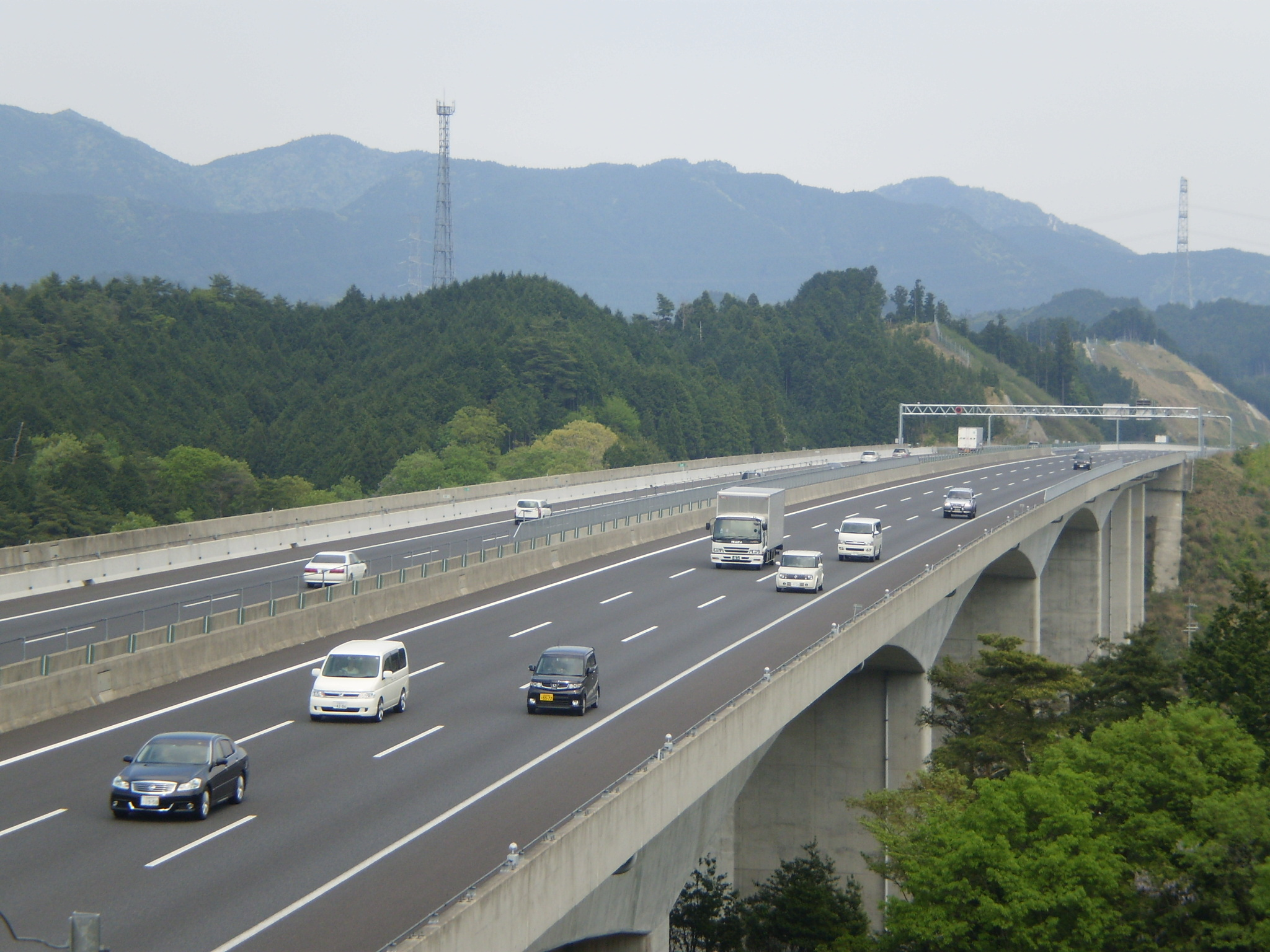 Shin-Meishin Expressway. I took this image at Yamanaka Tsuchiyama-cho Koka City Shiga Pref., Japan.